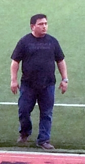 Global F.C. Chief Executive, Dan Palami following the end of the 0-0 football friendly between his club and Perth Glory F.C. of Australia